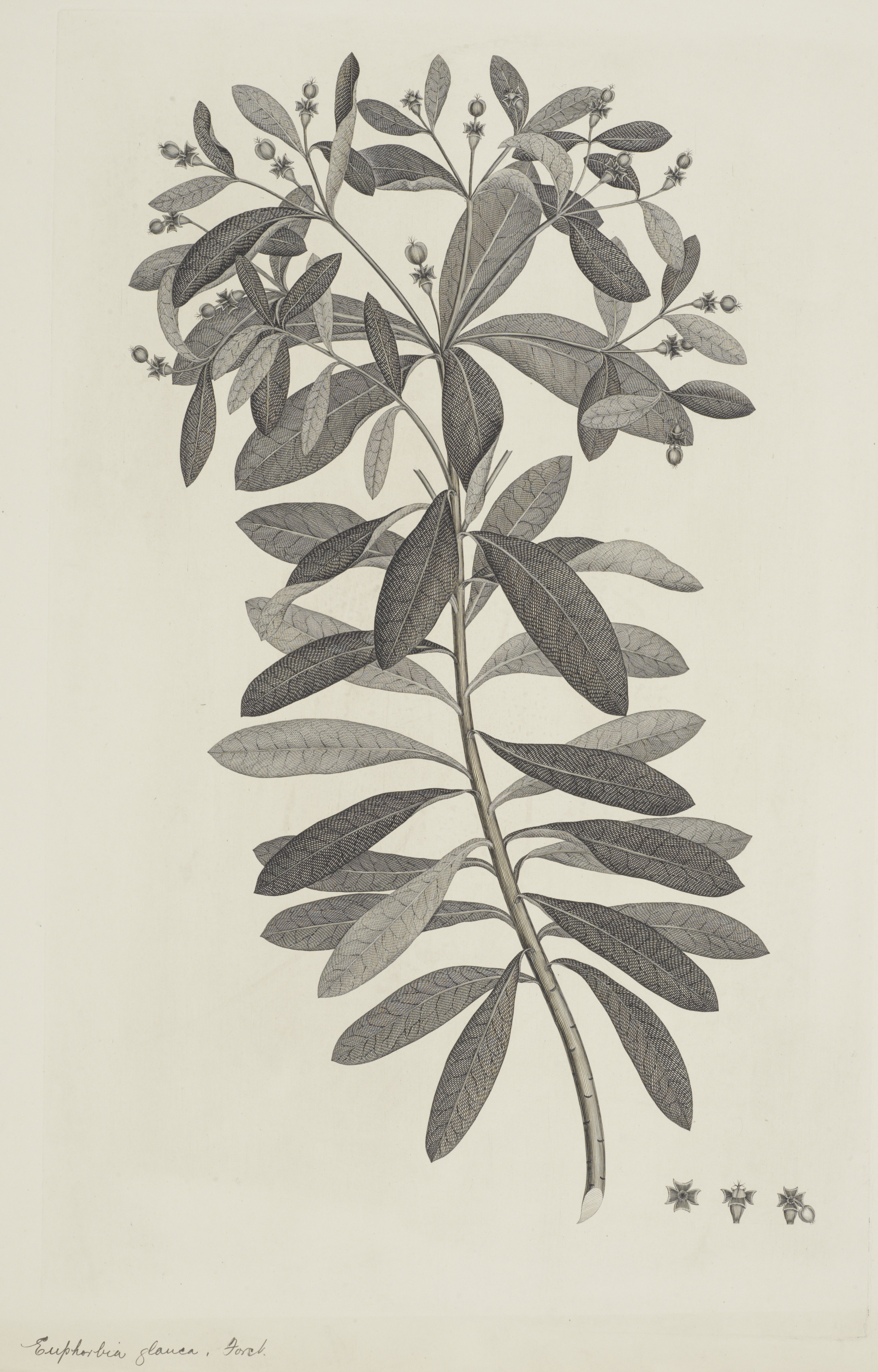 Euphorbia glauca G. Forster, Sydney Parkinson; artist; 1895; United Kingdom copper engravings, line engravings ink, paper Dimensions: 378mm (width), 504mm (height) Registration Number1992-0035-2353/1861 Gift of the British Museum, 1895